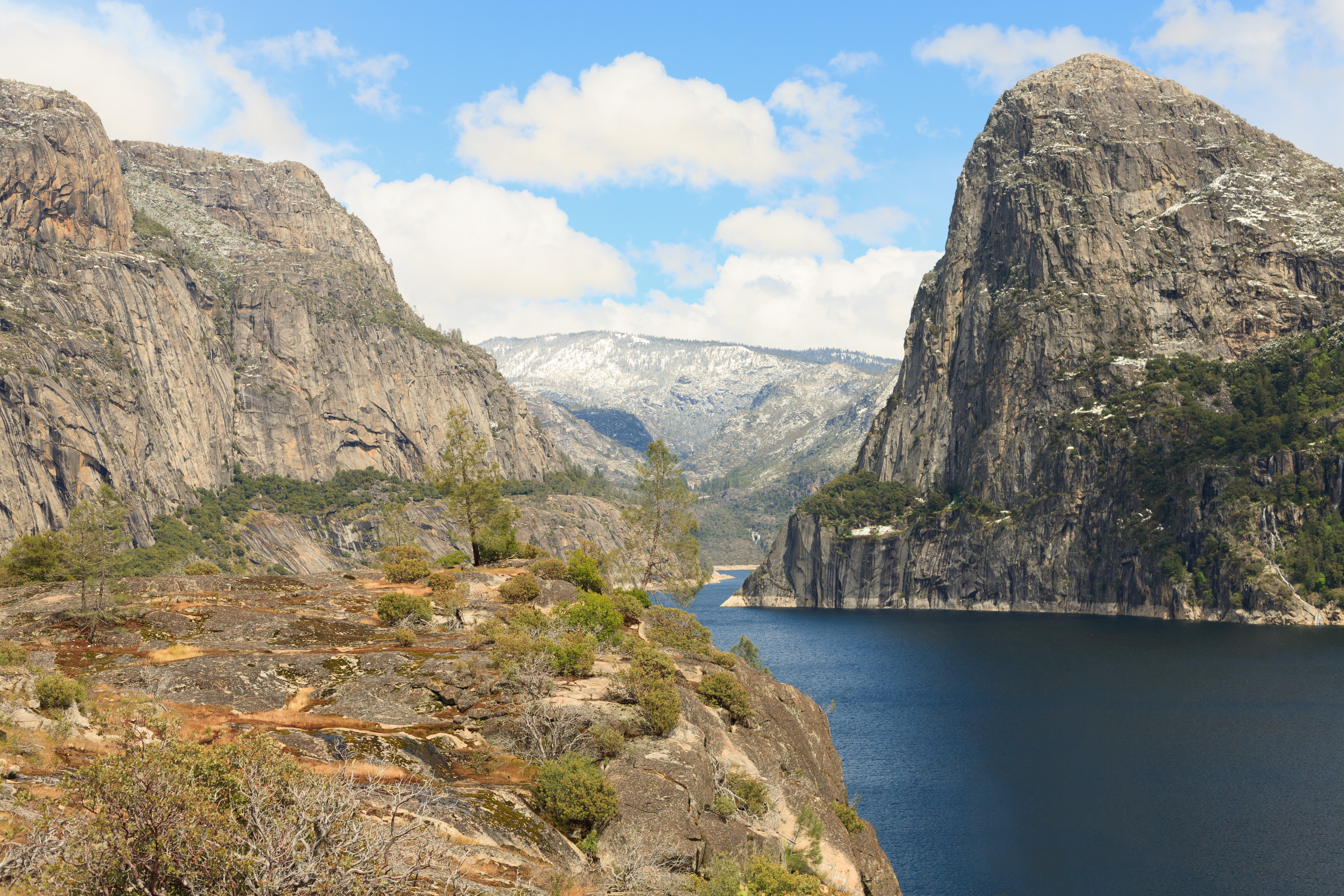 A view of Hetch Hetchy Reservoir and Granite rock formations — in the Hetch Hetchy area of northwestern Yosemite National Park.